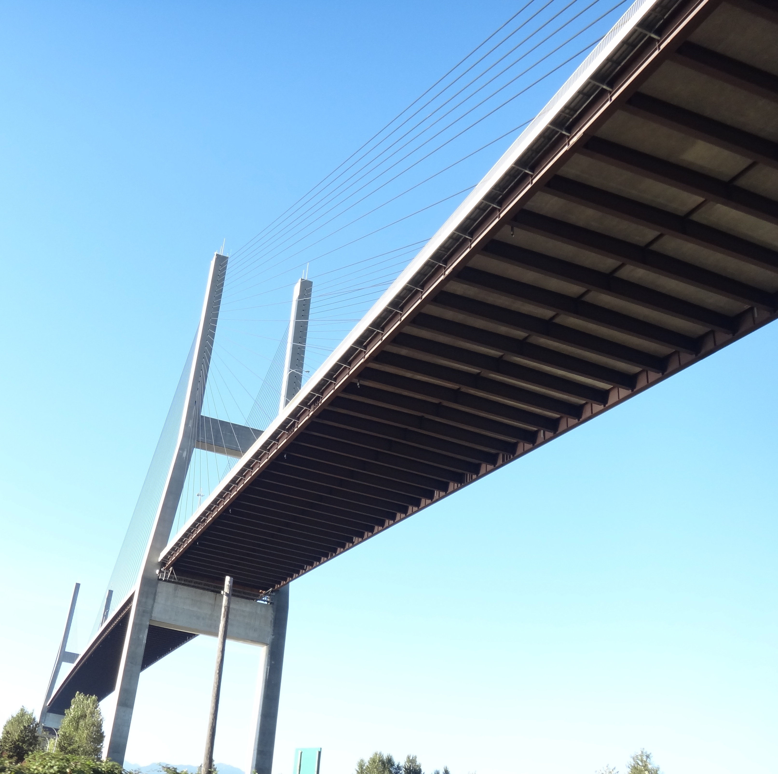 Some shots you can only get from a convertible with the top down.